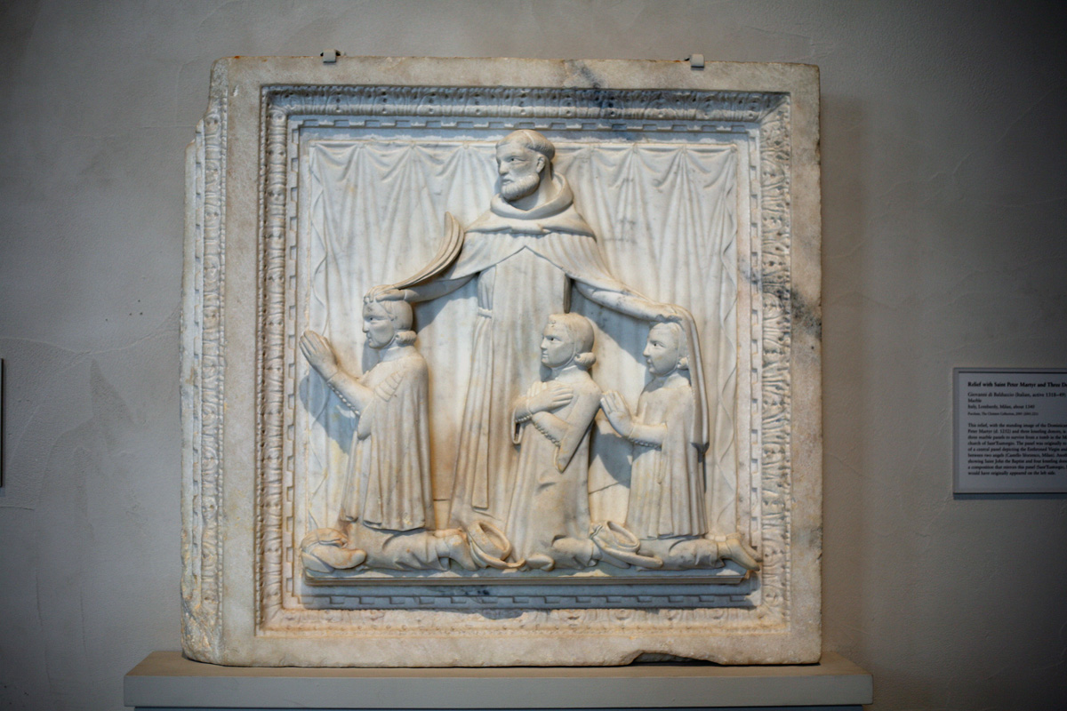 Giovanni di Balduccio (active 1318–1349), Italian Relief with Saint Peter Martyr and Three Donors, ca. 1340 Italian Marble; Overall: 31 1/2 x 33 7/8 x 5 11/16in. (80 x 86 x 14.5cm) The Metropolitan Museum of Art, New York, The Cloisters Collection, 2001 (2001.221) View at the Metropolitan Museum of Art website Wikipedia Loves Art at the Metropolitan Museum of Art This photo of item # 2001.221 at the Metropolitan Museum of Art was contributed under the team name "shooting_brooklyn" as part of the Wikipedia Loves Art project in February 2009. Metropolitan Museum of Art The original photograph on Flickr was taken by shooting brooklyn—please add a comment to the original Flickr page whenever a use has been made on Wikipedia or another project. Project galleries on Flickr: this institution, this team